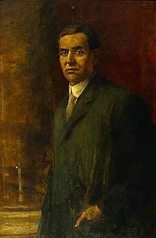 Oil painting of Minnesota Governor John A. Johnson Painter: Grace E. McKinstry (1859-1936) Art Collection, oil ca. 1905 Location no. AV1988.45.67 Negative no. 82789